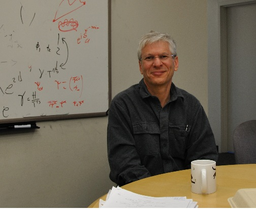 I took this picture of steve shenker to update his page